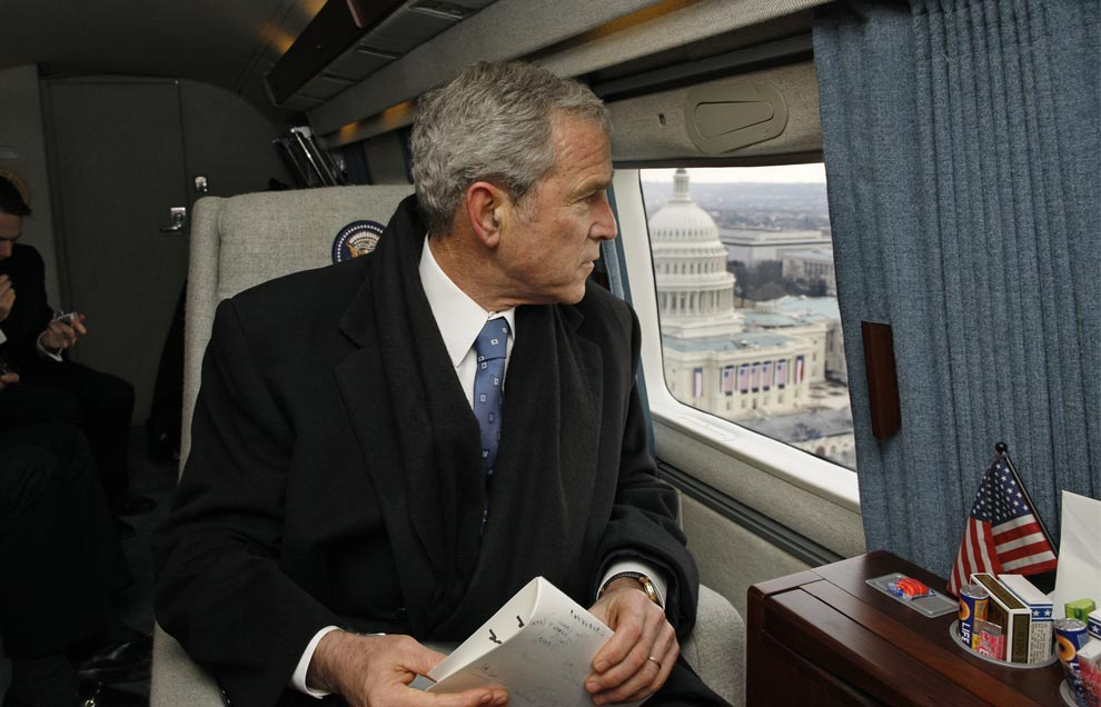 Former President George W. Bush looks out over the U.S. Capitol as his helicopter departs Washington on January 20, 2009, for Andrews Air Force Base following the inauguration ceremonies for President Barack Obama.